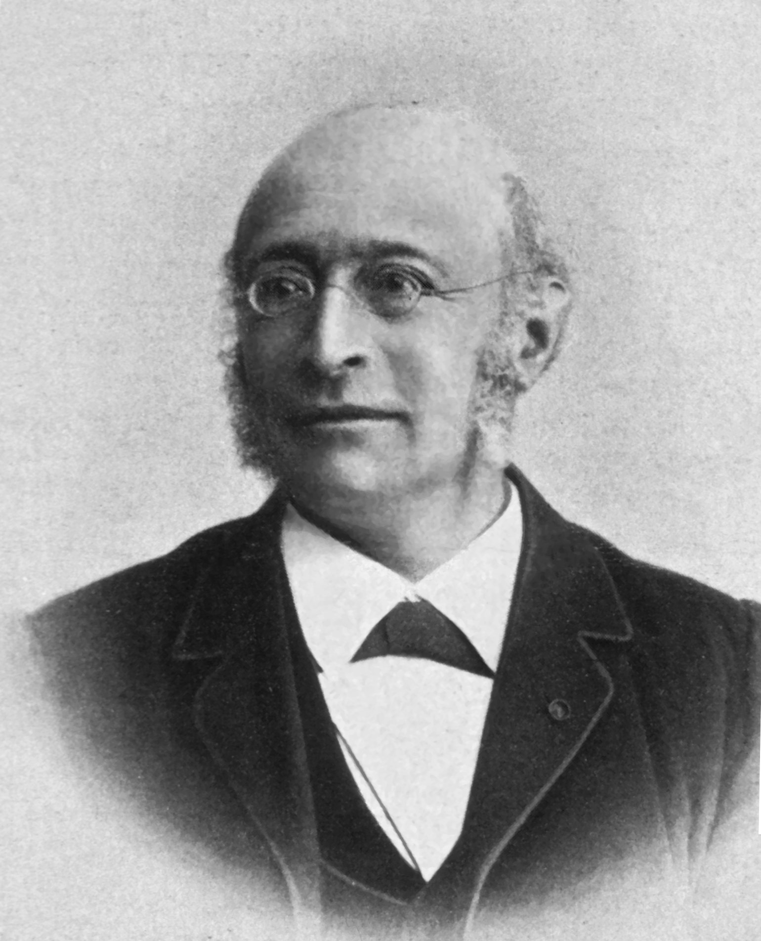 Barend Joseph Stokvis (16 August 1834 – 28 September 1902)